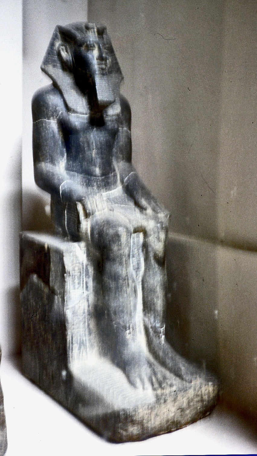 Statue of pharaoh Mersekhemre Neferhotep II, Egyptian Museum Cairo, Legrain, “Statues et statuettes”, I. (1906)